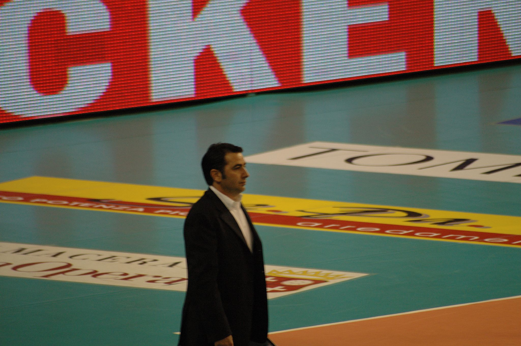 The Italian former volleyball player and coach Ferdinando De Giorgi